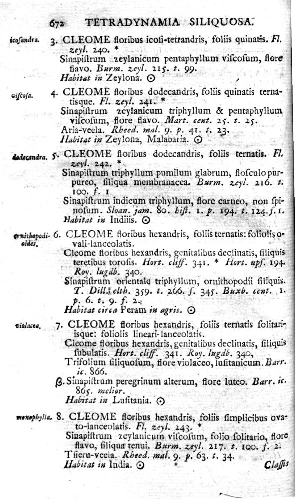 Page 672 of Species plantarum :exhibentes plantas rite cognitas, ad genera relatas, cum differentiis specificis, nominibus trivialibus, synonymis selectis, locis natalibus, secundum systema sexuale digestas...